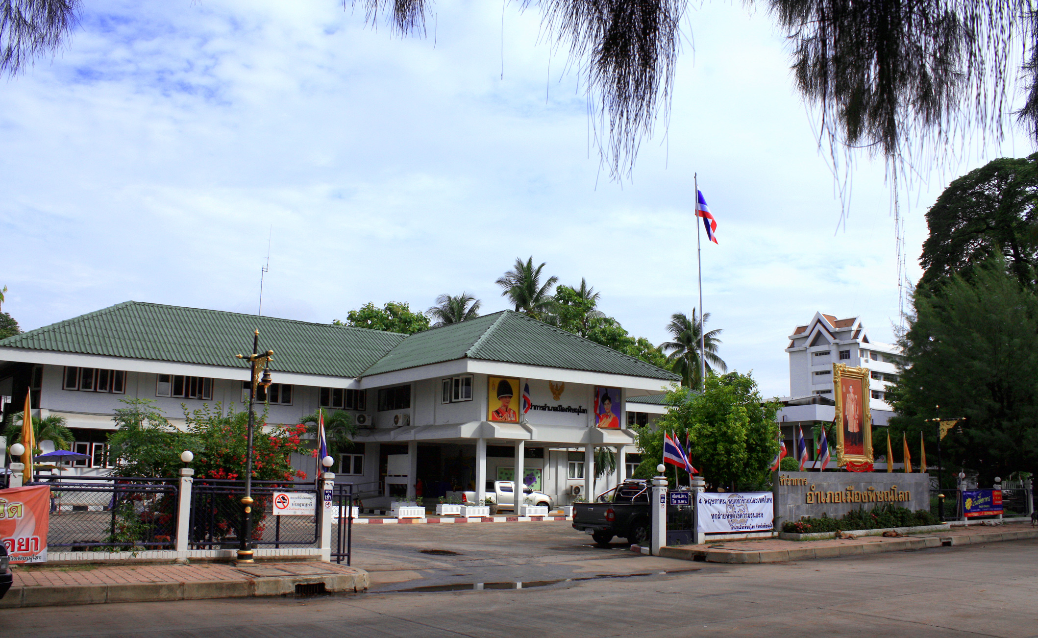 District office Amphoe Mueang Phitsanulok